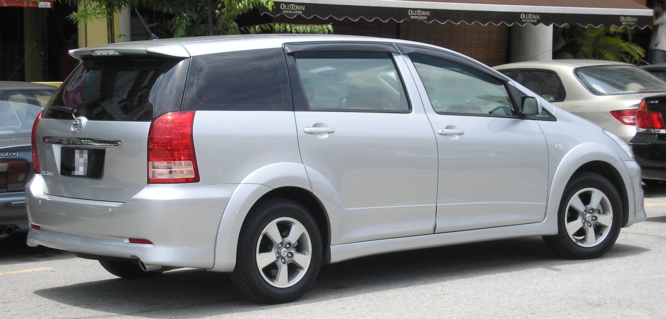 Rear-side shot of a first generation, first facelifted Toyota Wish, in Serdang, Selangor, Malaysia.